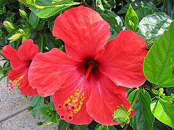 Photo of a blossom of a hibiscus.